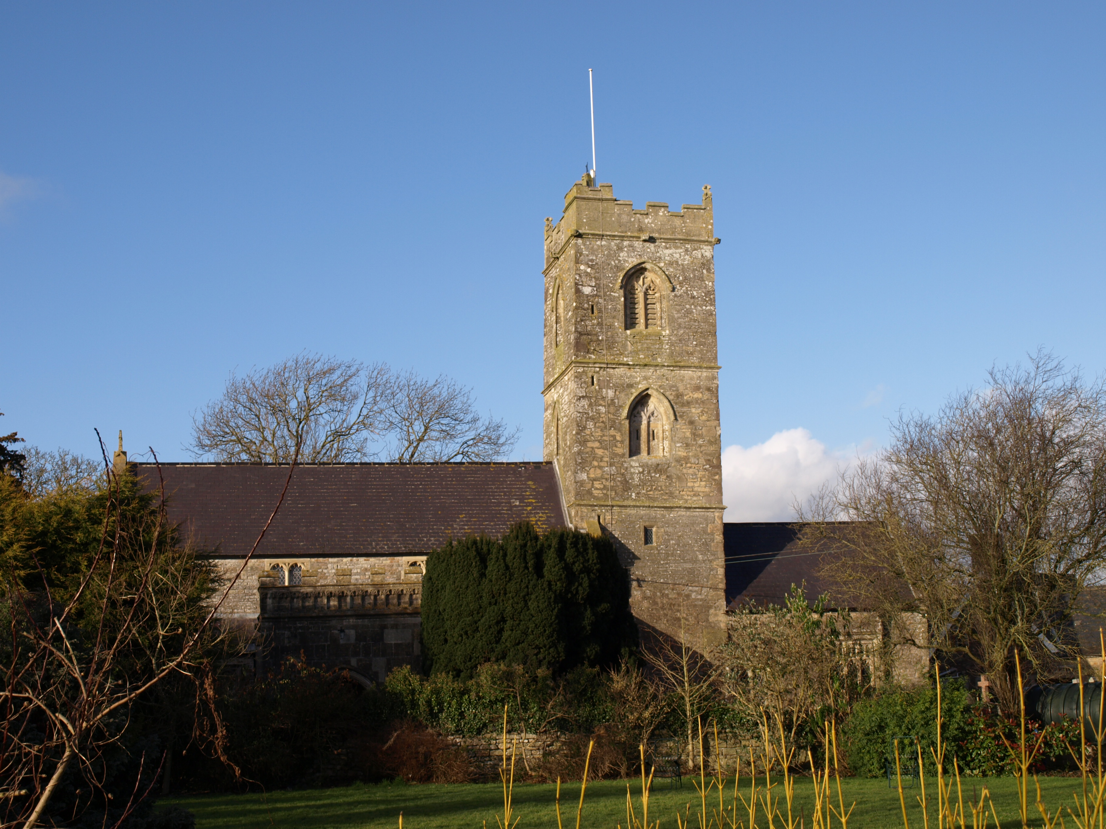 St Thomas the Apostle Church, Redwick Category:Redwick